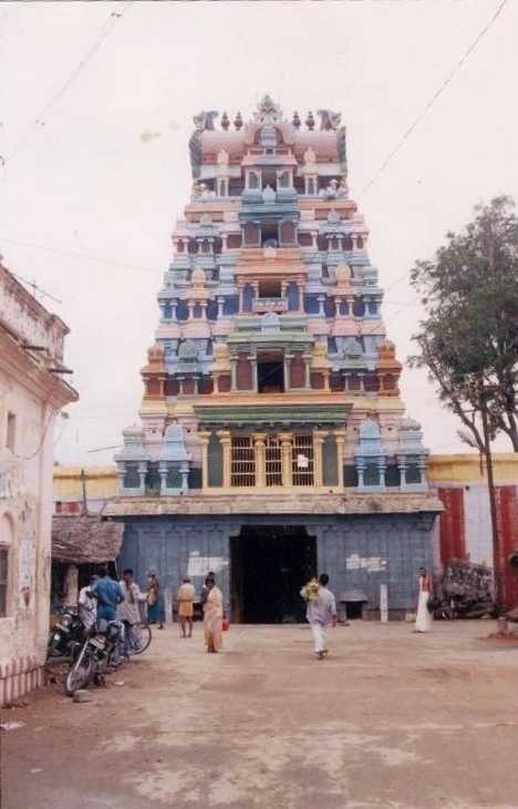 Thirupuvanam Temple Entrance and its Tower (Gopuram)